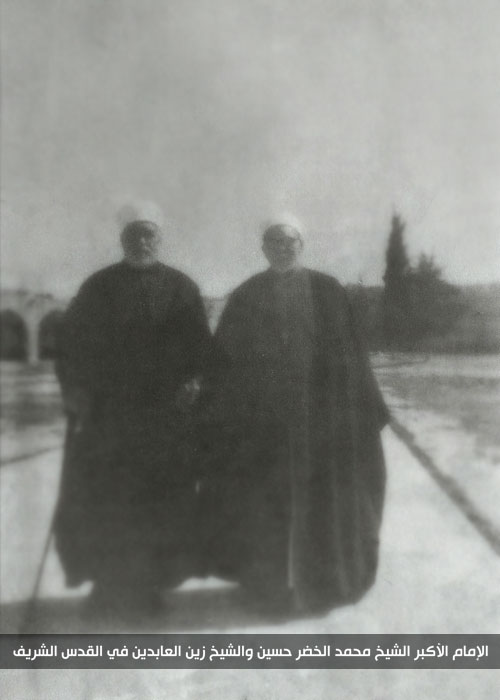 Mohamed_El_Khodhr_Hassine_and_Zine_El_Abidine Ben Hasine Ettunsi